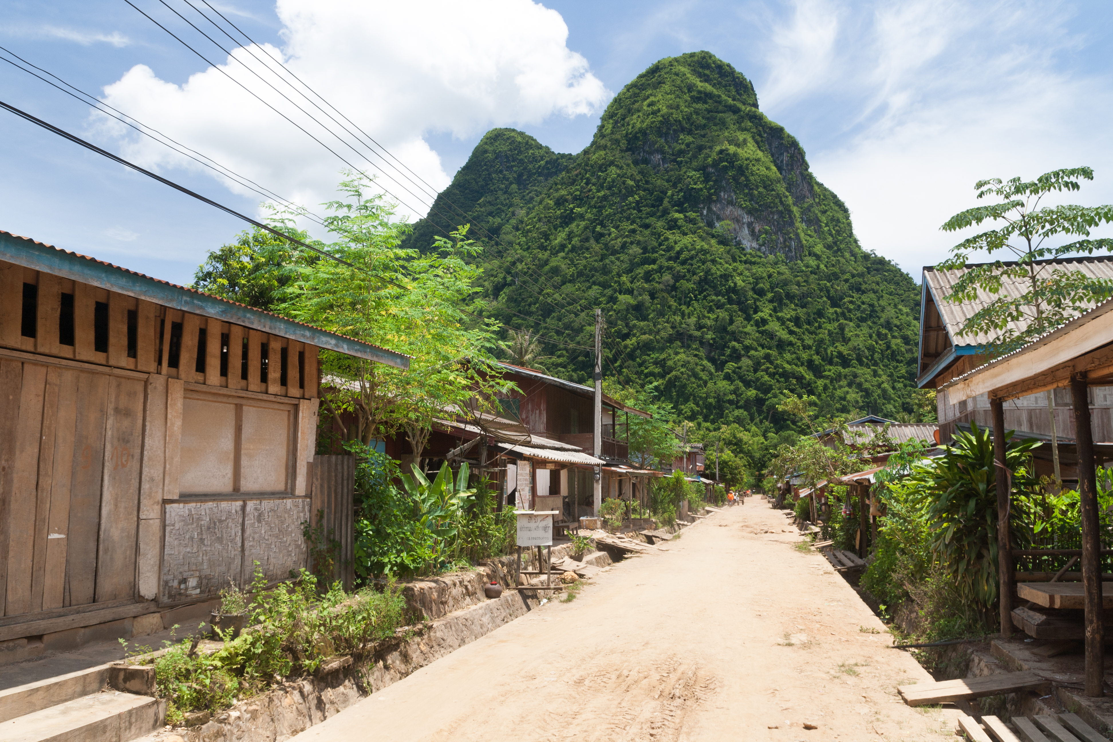 Muang Ngoi Neua village, north of Nong Khiaw, Luang Prabang Province